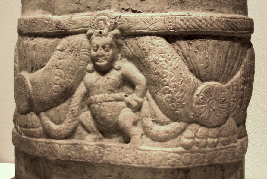 Greek floral scroll, supported by Indian Yaksas, Amaravati, 3rd century CE. Tokyo National Art Museum. Personal photograph, 2004. Released in the Public Domain.